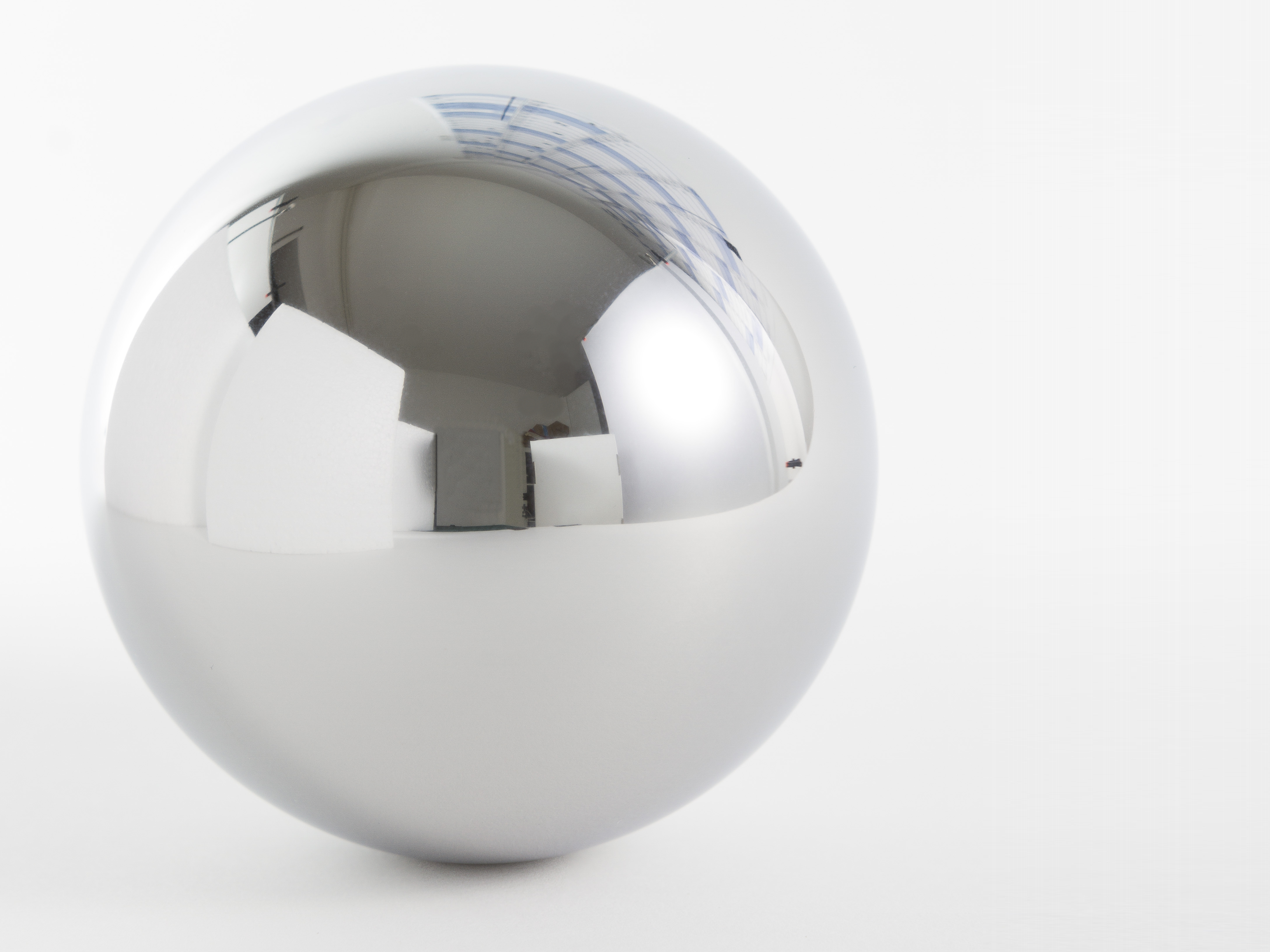 Bearing ball made of stainless steel 1.4034 in diameter 60mm, Grade 100 (DIN 5401).